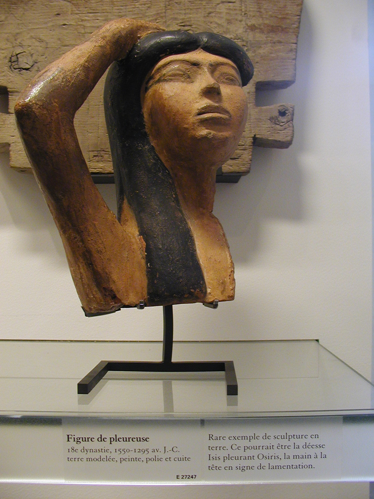 Mourner. Could be Isis mourning Osiris